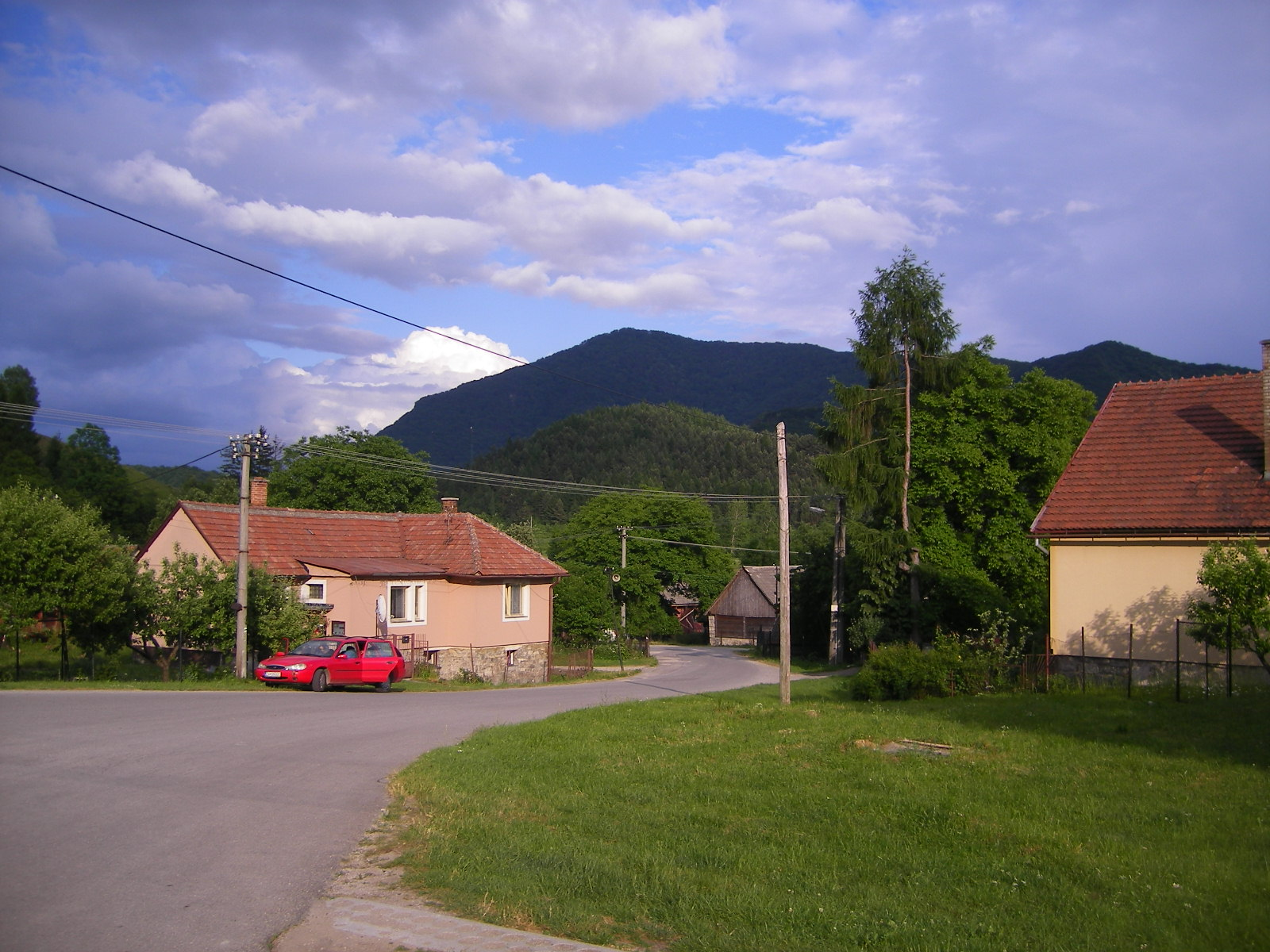 Šútovo - street view